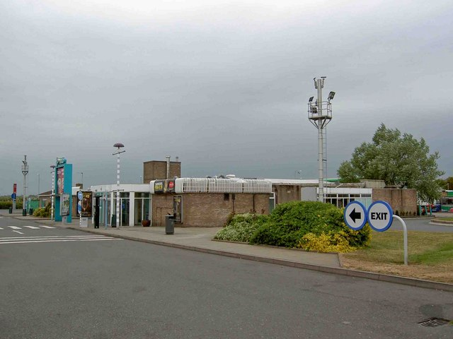 Moto services Gonnerby Moor Grantham The roundabout on the A1 here has now been removed as part of the A1 upgrade from Peterborough to Blyth (Notts.).